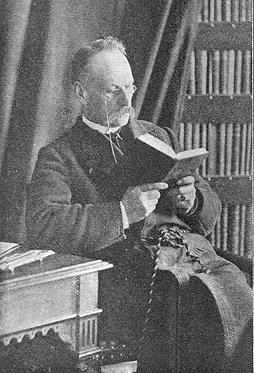 Portrait of the Dutch author Emile Seipgens (1837-1896)